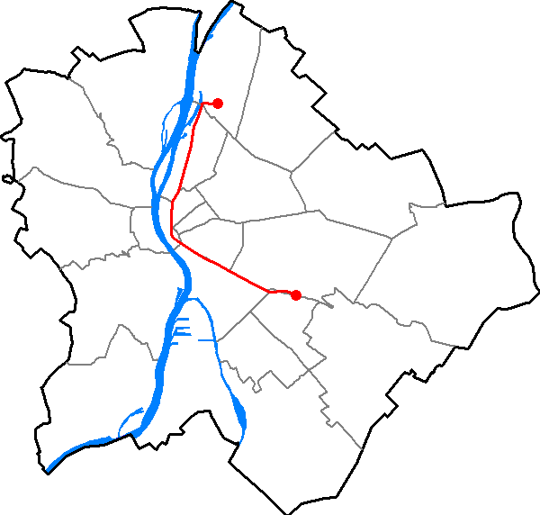 The route of the underground M3 in Budapest.